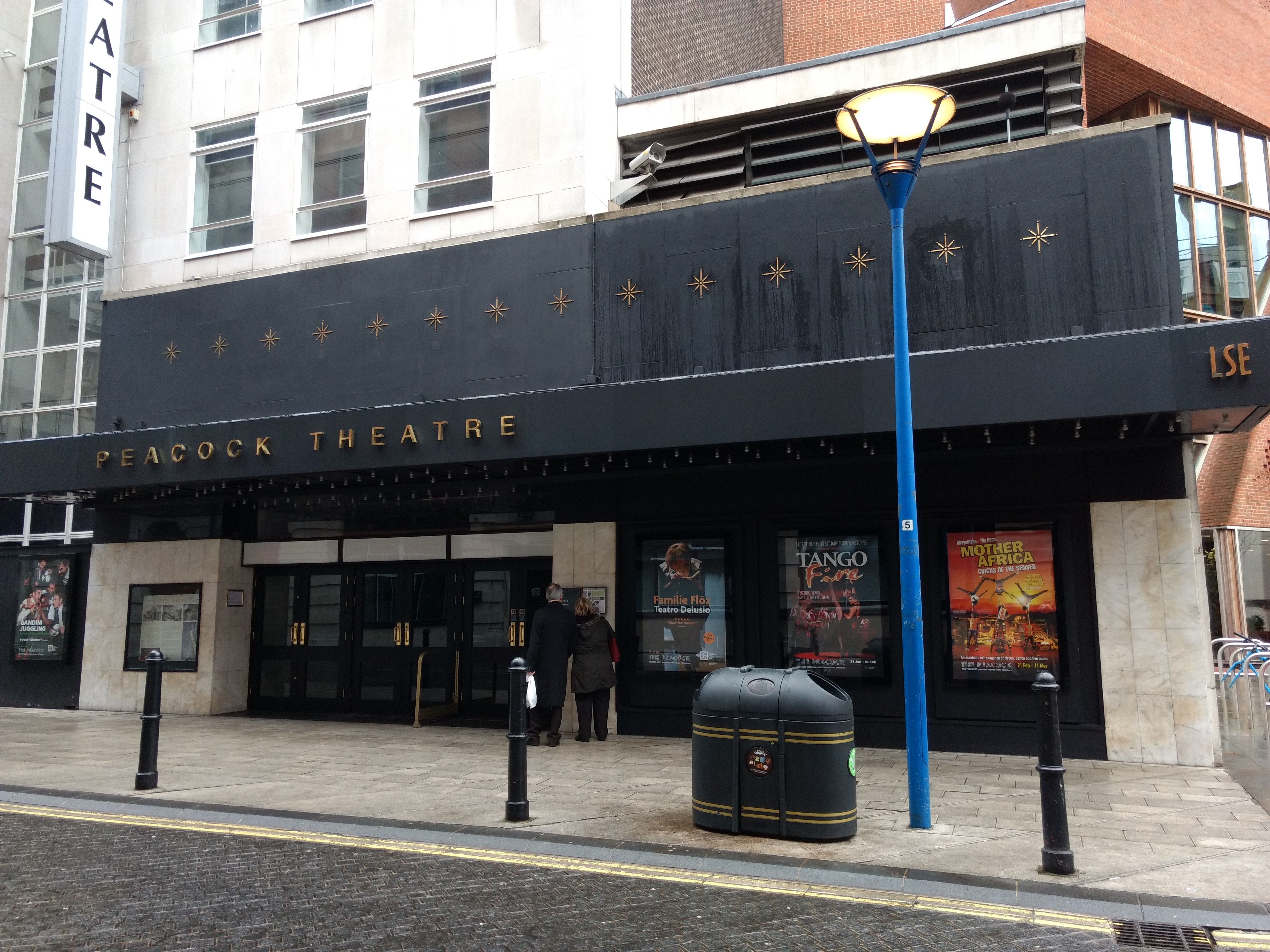 London